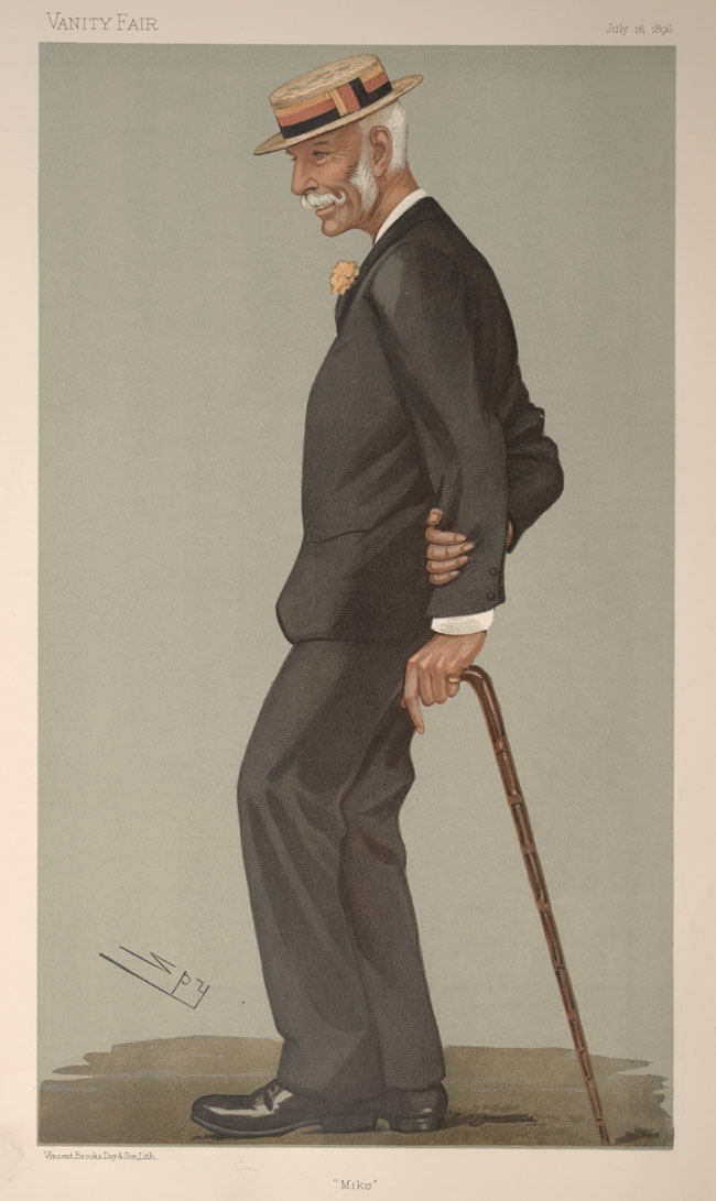 Men of the Day No.653: Caricature of Mr Richard Arthur Henry Mitchell. Caption reads: "Mike"